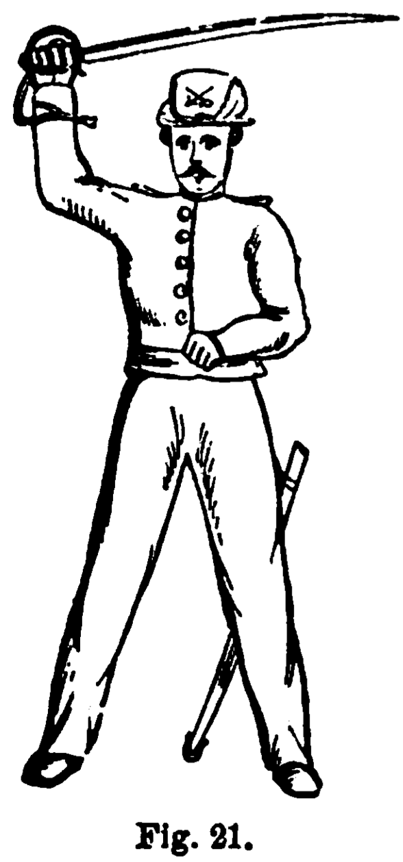 Sabre parry quinte, from George Patten's 1861 manual of